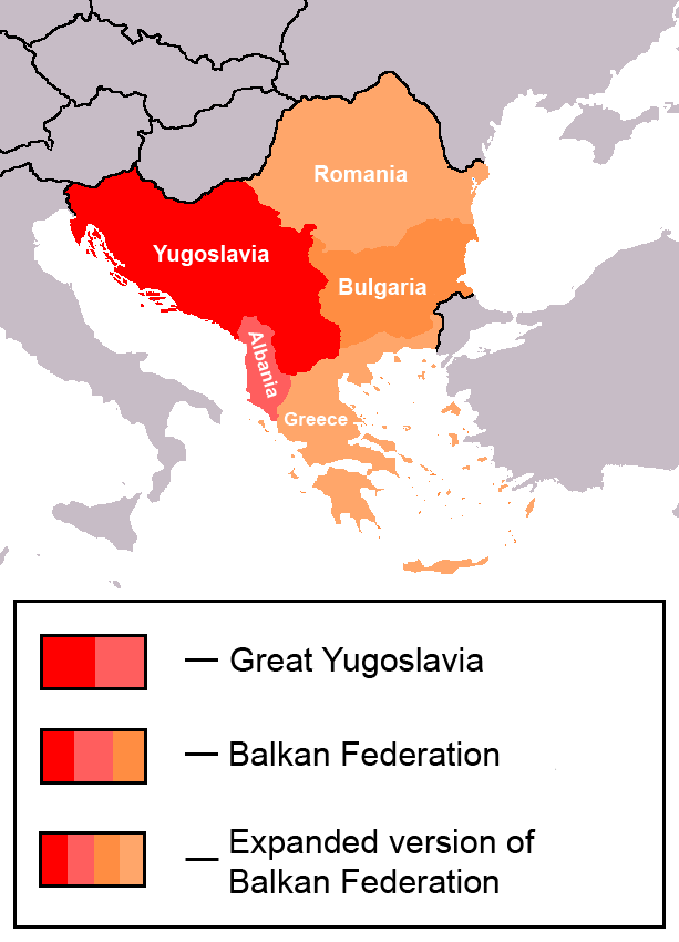 Map of Communist project of post-war Balkan Federation.